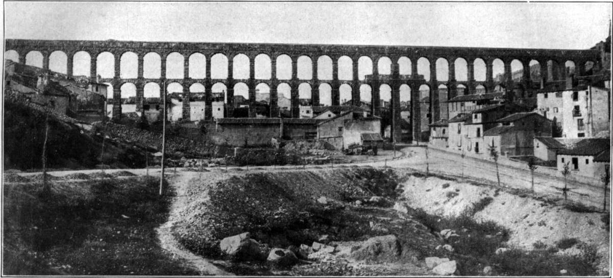 Roman aqueduct at Segovia, Spain. From 1911 Encyc. Brit. Bild:Aquaeduct-Segovia.jpg